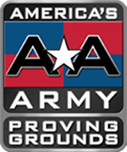 America's Army: Proving Grounds Logo